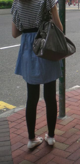 原子褲